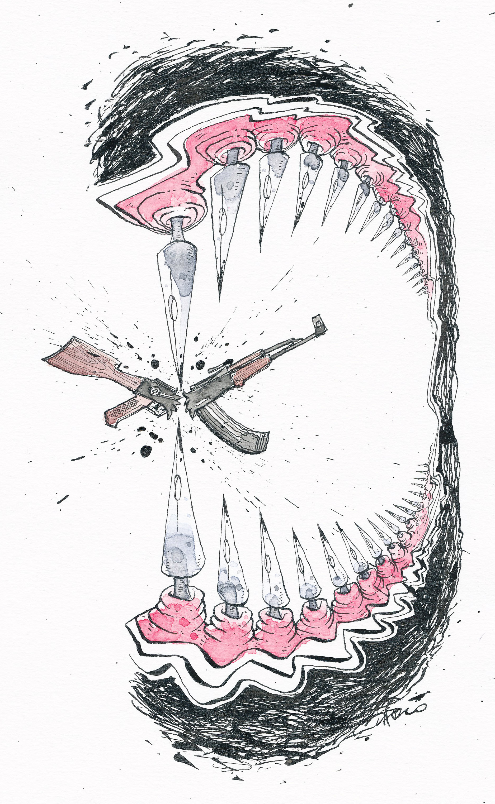 title: freedom of press in response to the terrorist attack on French satirical magazine Charlie Hebdo